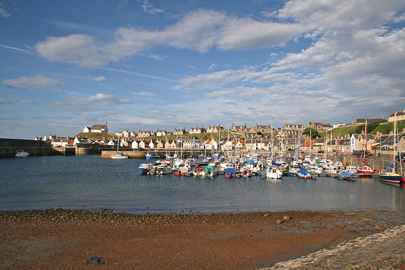 The harbour of Findochty, Banffshire, Scotland with the town in the background. Gàidhlig: Am Fionn Ochdamh, Moireabh, Alba.